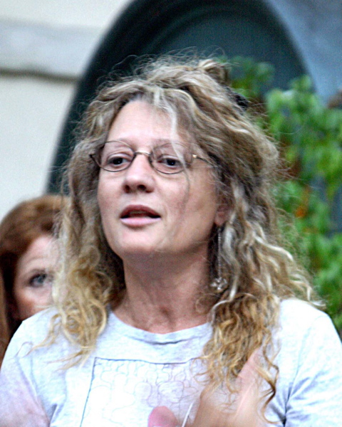 Photo of Jasmina Tesanovic Â©2005 Margery Epstein. Used with explicit permission from the author.